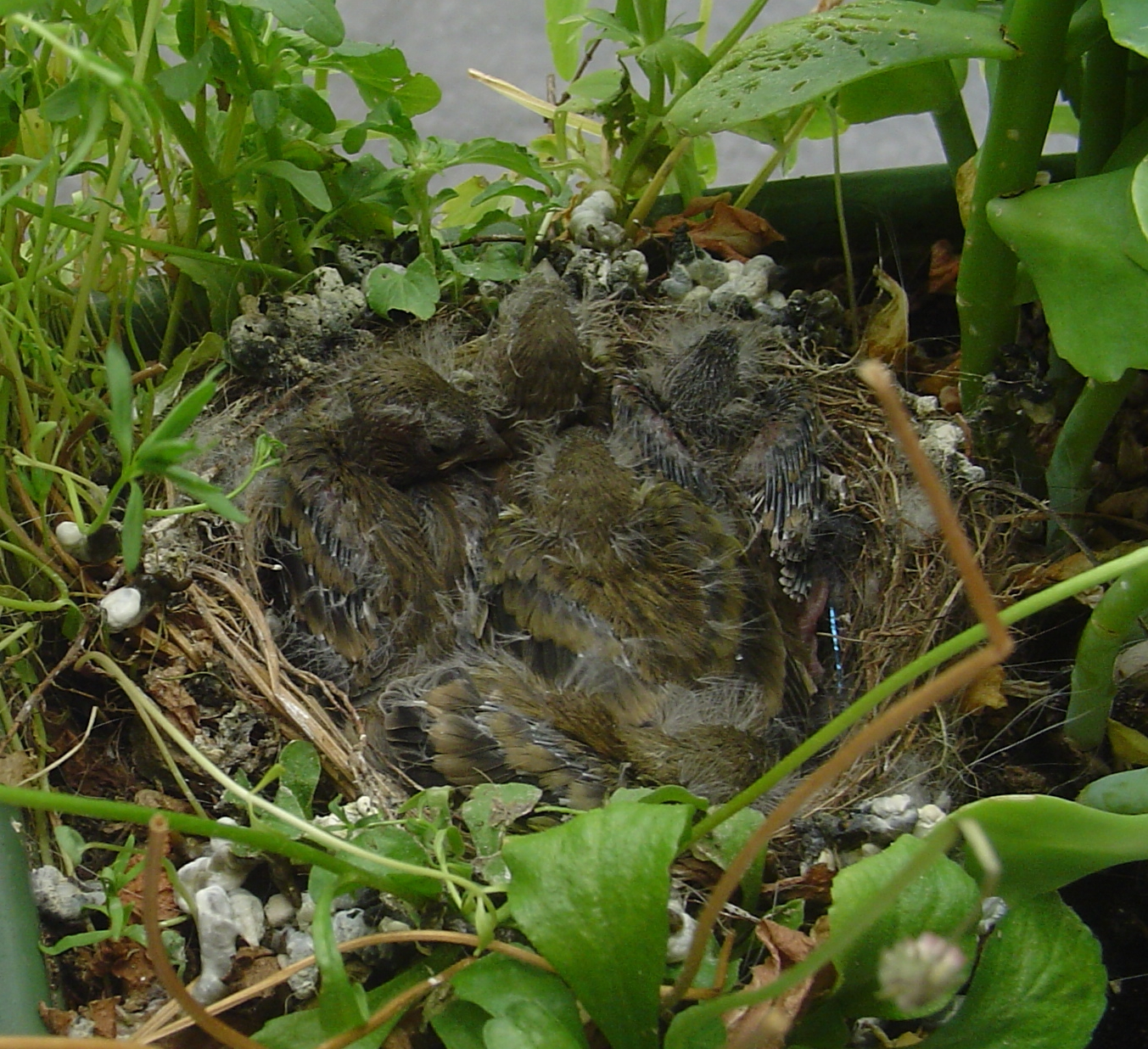 goldfinch's nest with young birds